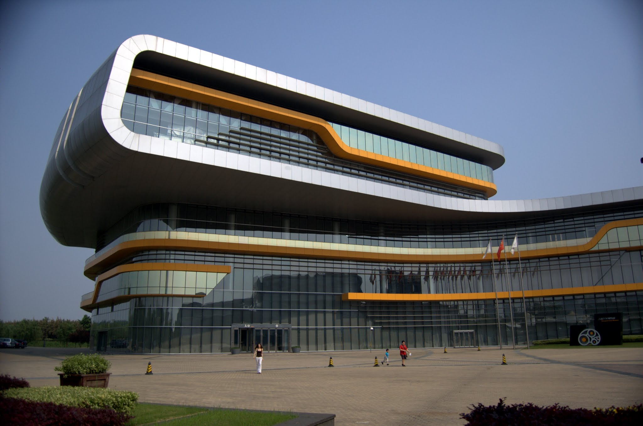 7565 Boyuan Road Jiading, Shanghai China 021-69550055